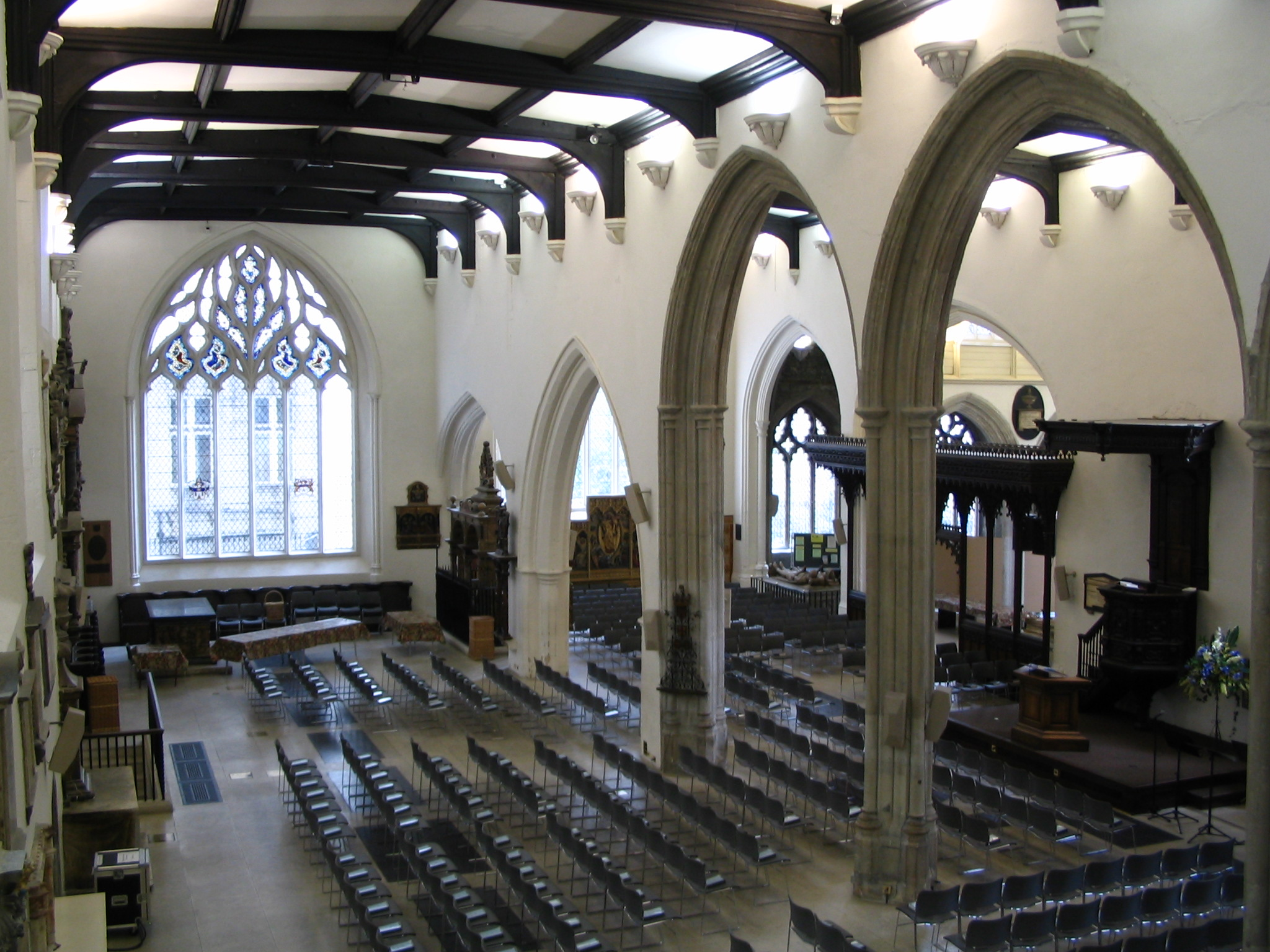 Photo taken by E A Sparks, June 2005. Used by permission.